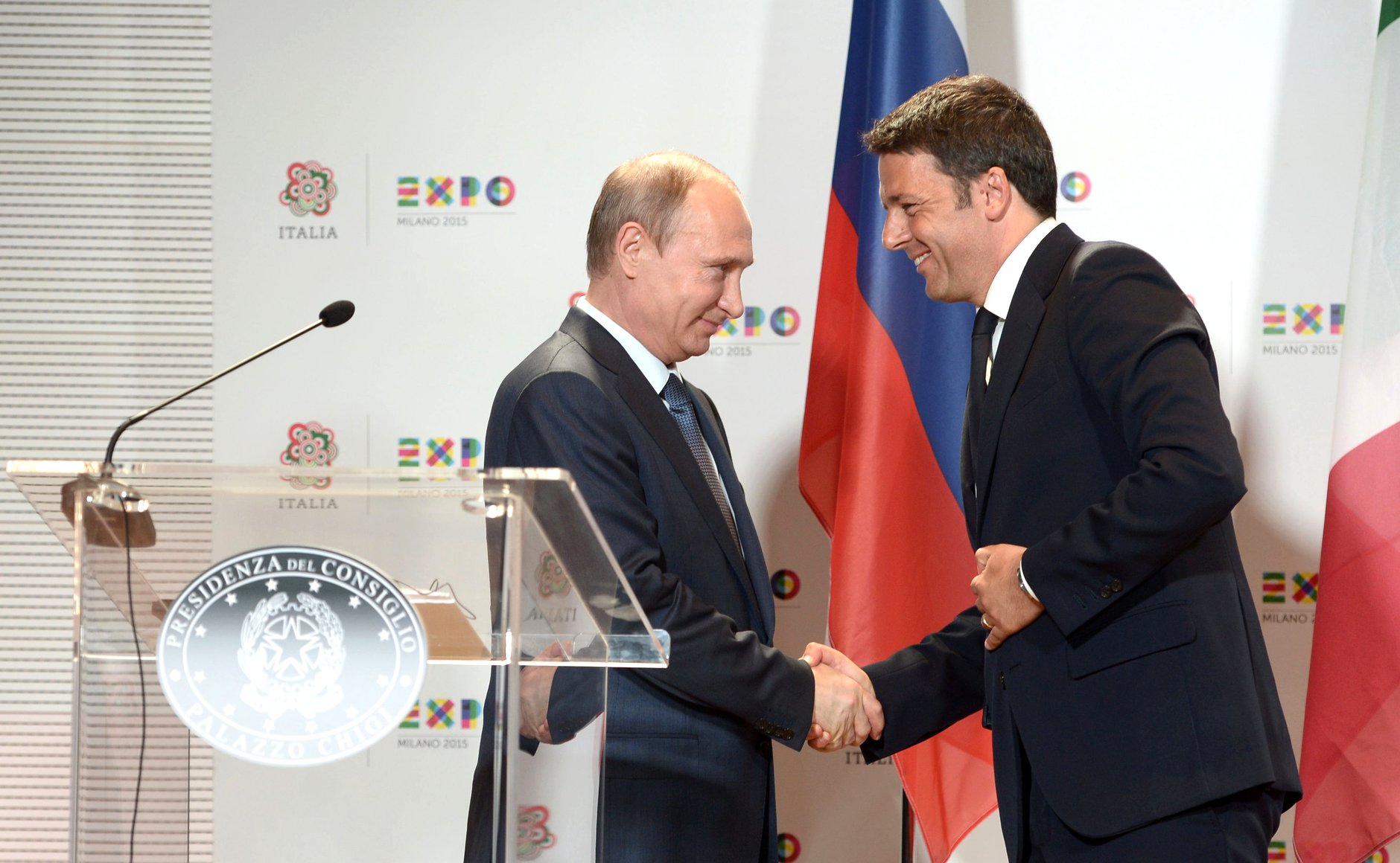 Joint Press-Conference of President of Russia Vladimir Putin and President of the Council of Ministers of Italy Matteo Renczi